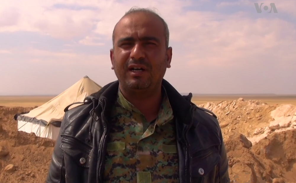 Rashid Abu Khawla, leader of the SDF Deir Ezzor Military Council